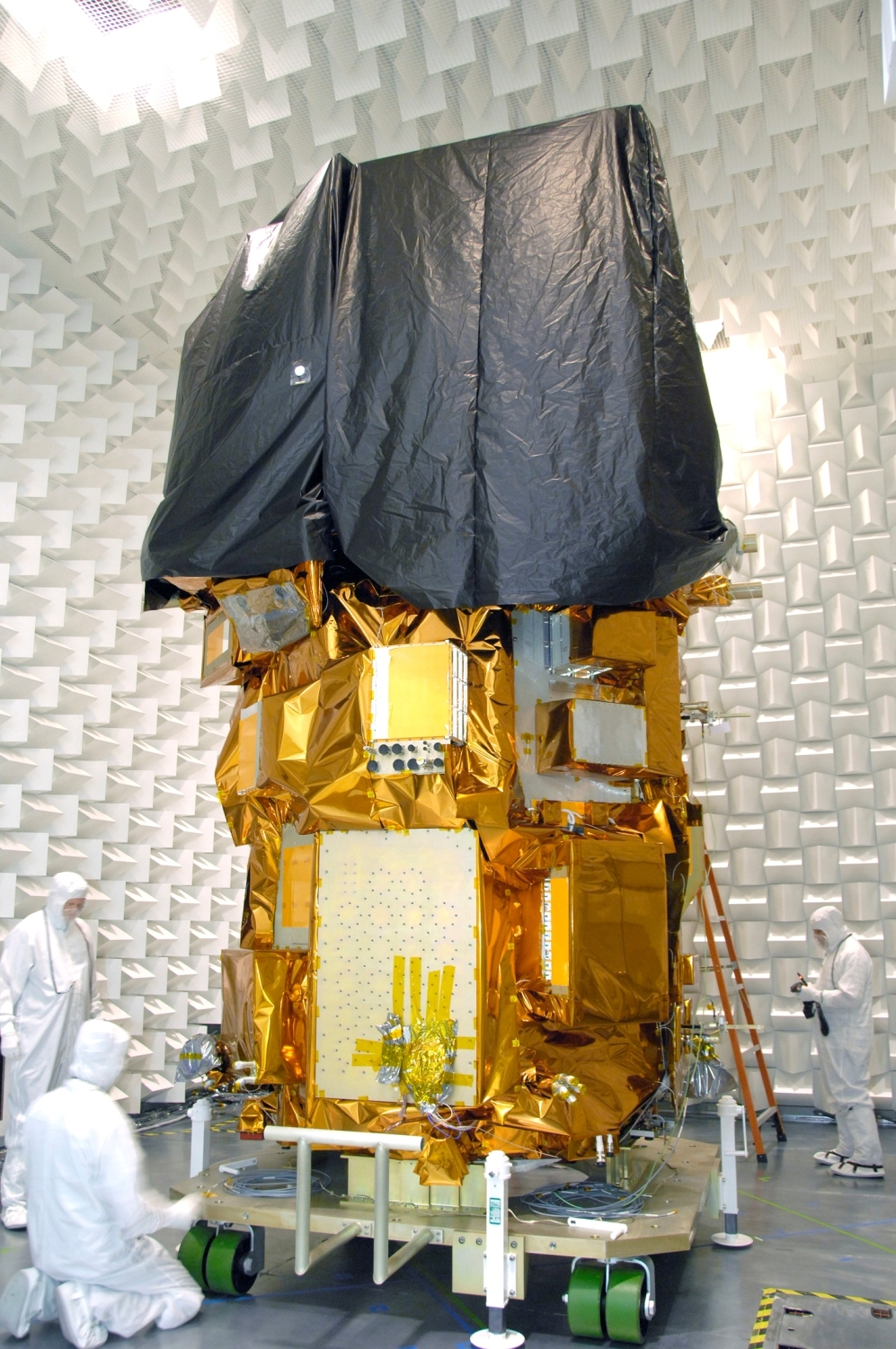 Landsat Data Continuity Mission (LDCM) Observatory Electromagnetic Interference/Electromagnetic Compatibility (EMI/EMC) undergoing testing at Orbital Science Corporation's Gilbert, Arizona, location. EMI/EMC testing is conducted in order to validate that while the Observatory is on-orbit in space, all Observatory components (including the instruments) can operate successfully together. After successful EMI/EMC testing, the Observatory will be prepared for a series of mechanical tests next month to validate that the Observatory can survive the launch environment.